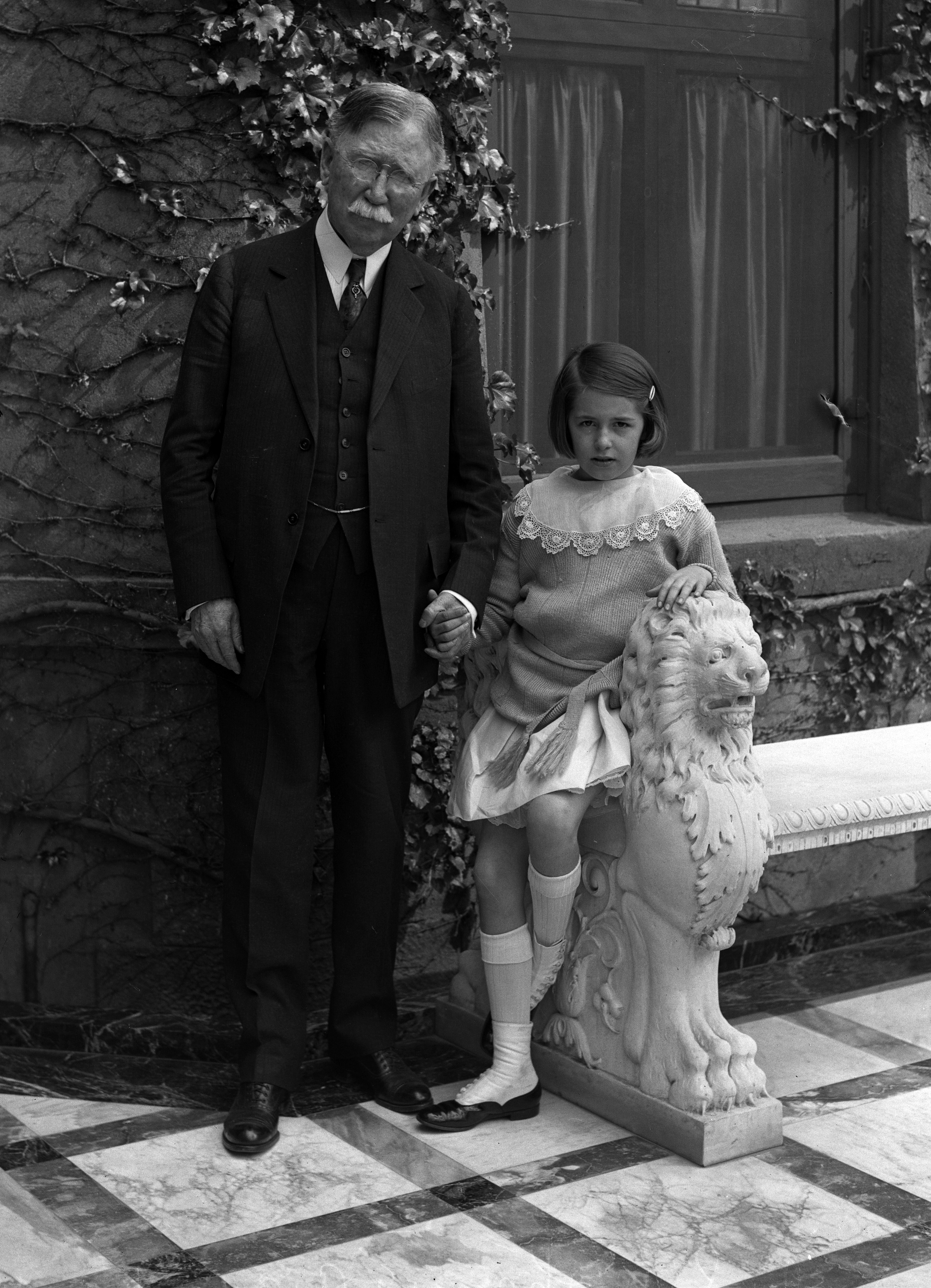 Title: Edward L. Doheny and his granddaughter, Lucy Estelle circa 1928 Publication:Los Angeles Times Publication date:1928 Notes:Handwriting on negative states "Edward L Doheny & granddaughter"